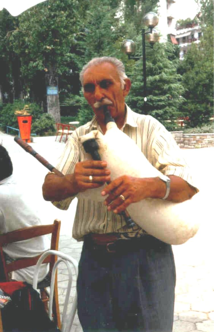 The Macedonian gaida is similar to other bagpipes found in Balkan countries. According to Anthony Baines, the bagpipe has been used by the Macedonians since ancient times. The gaida has a single chanter pipe and one drone pipe. The reeds are single (like a clarinet reed). Gaides like this one can be found today mostly in Macedonia, including Aegean Macedonia and Thrace. At one time it was found even in southern Greece. The gaida can be played unaccompanied, but percussion instruments are played when another musician is available. The favorite accompaniment for the gaida varies. In Macedonia and Aegean Macedonia the tupun (large drum) accompanies the gaida. Also, the defi or daires (small hand drum like a tambourine) accompanies the gaida.